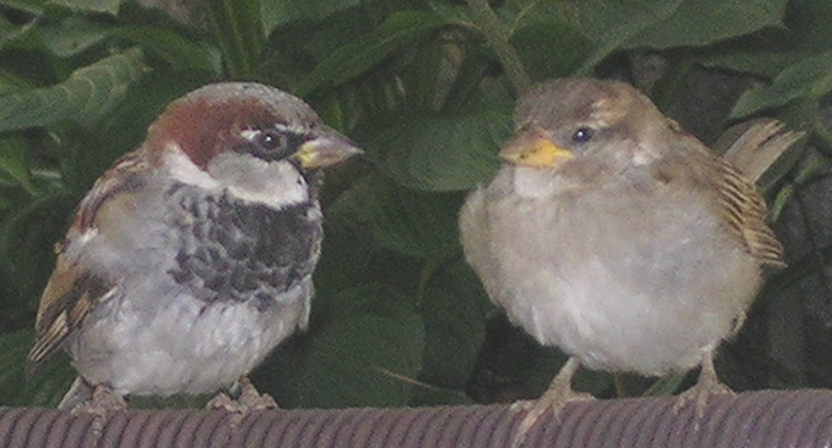 House Sparrows, male and female in Ticino region in Switzerland